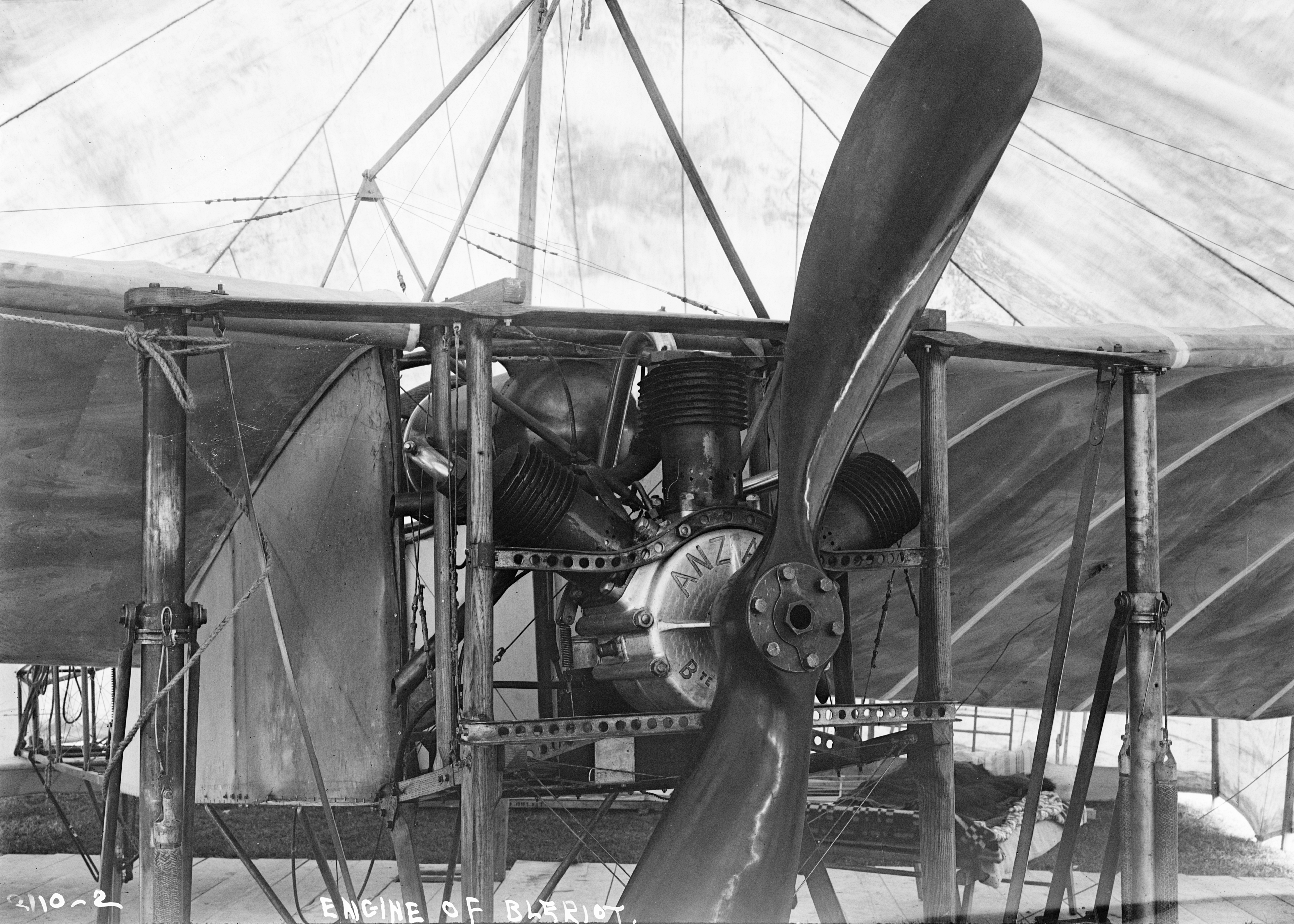 Engine of Bleriot (Title from unverified data provided by the Bain News Service on the negatives or caption cards.) Blériot XI engine